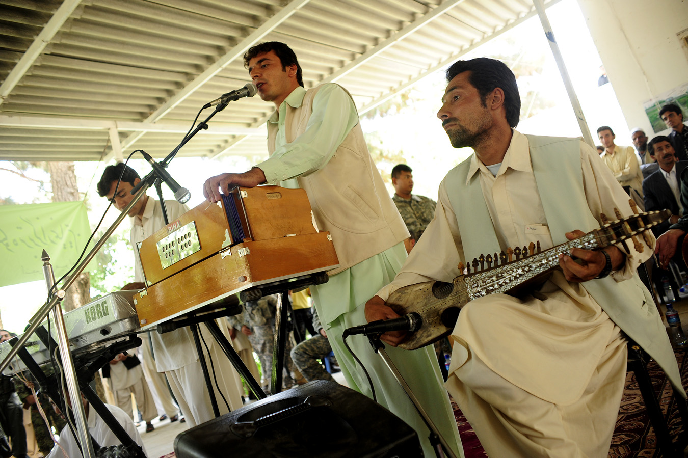 FARAH, Afghanistan (May 08, 2010) – An Afghan band conducts a musical performance at the Anab Gull Poetry Festival at the Farah Provincial Governors compound in Farah, Afghanistan, May 8, 2010. The festival was the first of its kind in two years and was an effort to remind the Afghan people of their rich cultural history. Male and female poets of all ages recited their poems to an audience consisting of coalition forces, provincial leadership and Afghans from all over the 10 districts of Farah province. Many poems focused on topics such as love, fruits, governance, the importance of education and the issues and beauty that lie within Afghanistan. (ISAF photo by U.S. Air Force Senior Airman Rylan K. Albright)